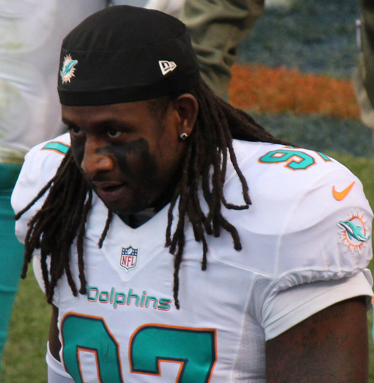 Kelvin Sheppard, a player on the National Football League.